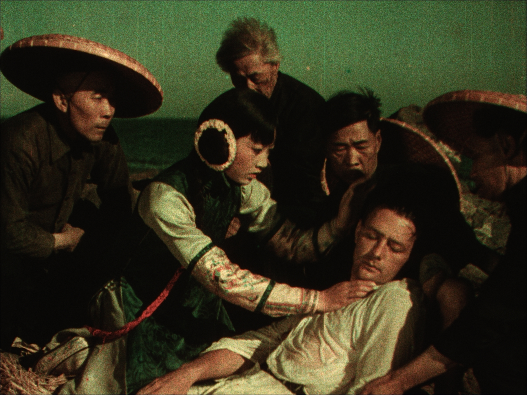 Lotus Flower (Anna May Wong) rescues Allan Carver (Kenneth Harlan) from the sea.